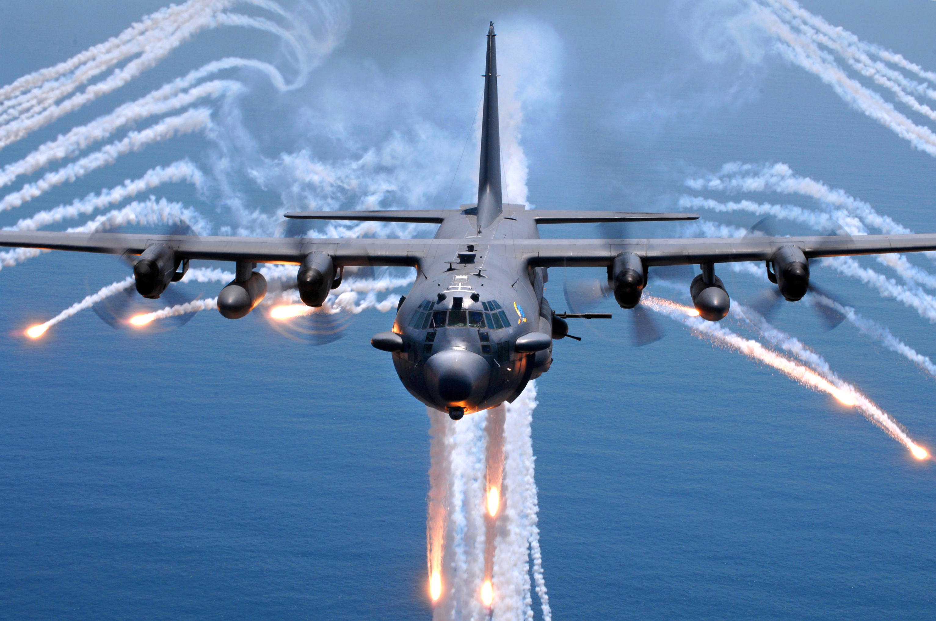 An AC-130H gunship from the 16th Special Operations Squadron, Hurlburt Field, Florida, jettisons flares as an infrared countermeasure during multi-gunship formation egress training on August 24, 2007.